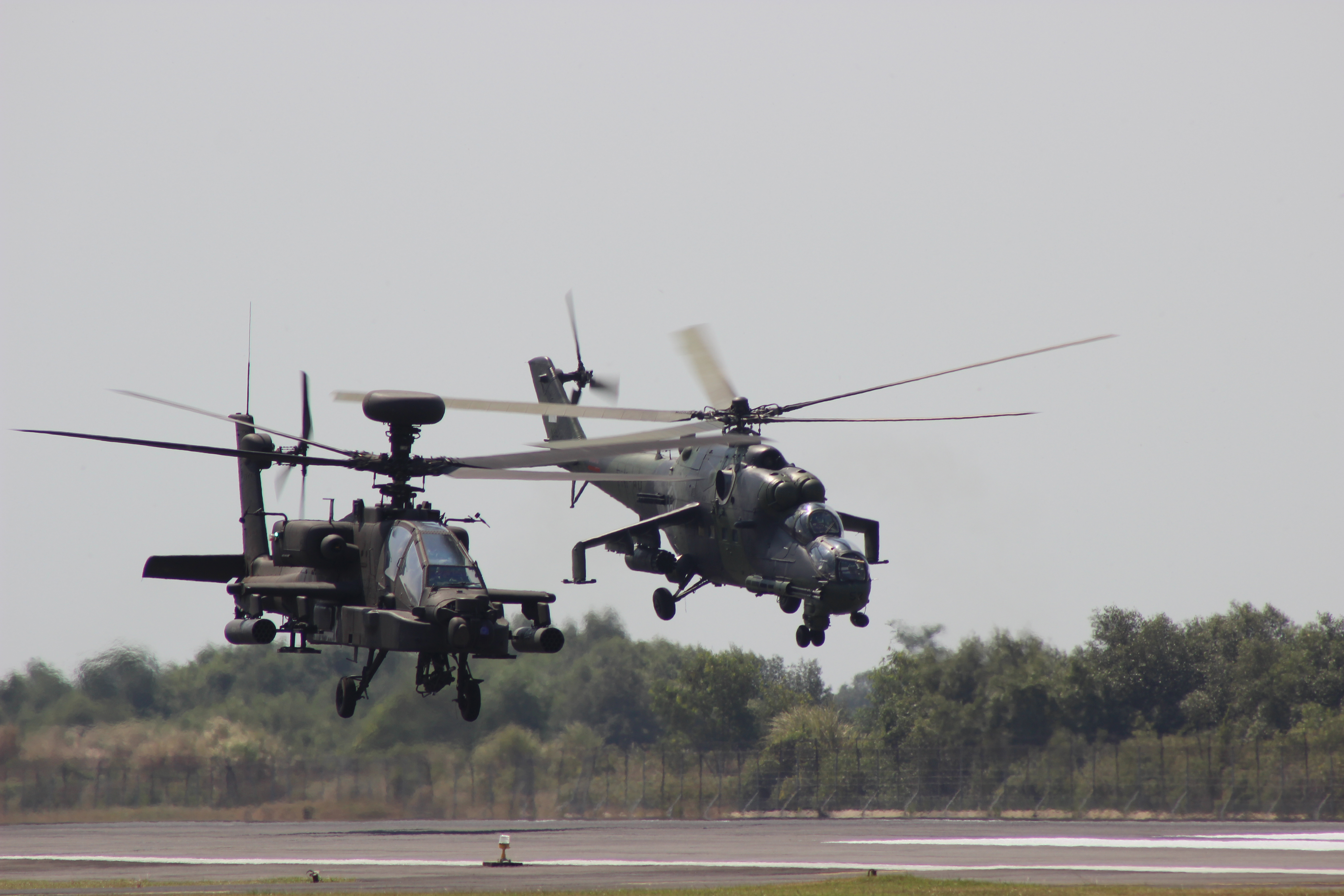 An AH-64E Apache Guardian from 1st Armed Reconnaissance Battalion, 25th Aviation Regiment, 25th Combat Aviation Brigade, 25th Infantry Division, and a Mi-35 Attack Helicopter from 31st Squadron, Tentara Nasional Indonesia Angkatan Darat, take off for a flight together during an attack/reconnaissance training mission in Semarang, Indonesia, Sept. 9. The training is part of Garuda Shield 2014, where units from United States Army Pacific are focusing on peace support training capacity and stability operations with the TNI-AD. (U.S. Army photo courtesy of 25th Combat Aviation Brigade)